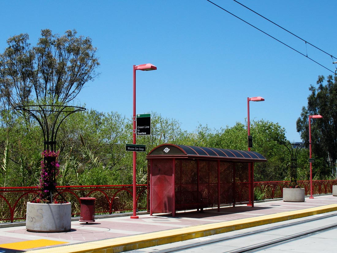 Mission San Diego Trolley Station